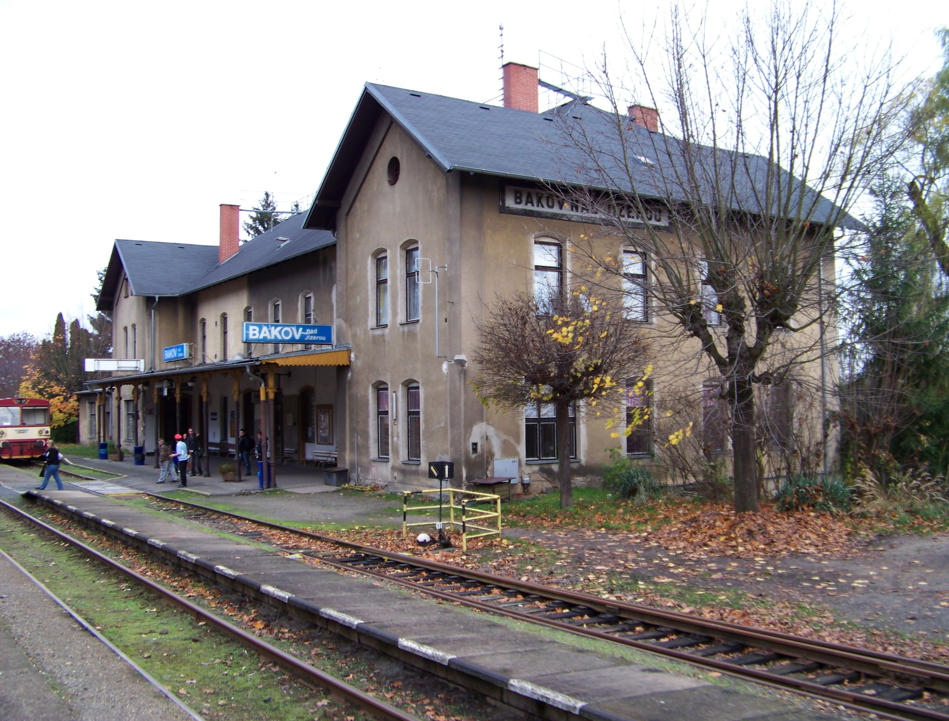 Bakov nad Jizerou-Zvířetice, Mladá Boleslav District, Central Bohemian Region, Czech Republic. Train station Bakov nad Jizerou. - OpenStreetMap (Info)